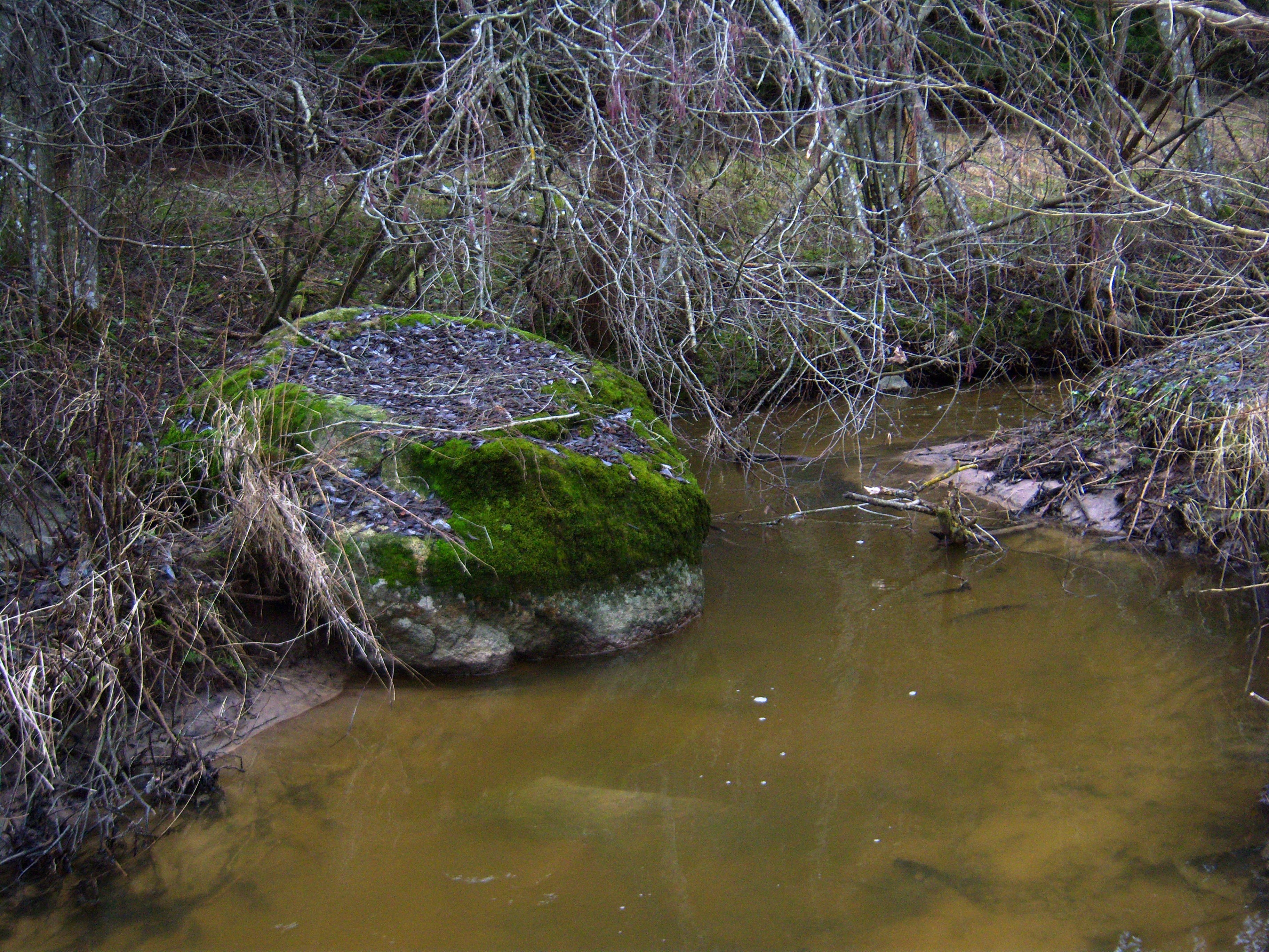 Dūrupis Stone, Kelmė District, Lithuania